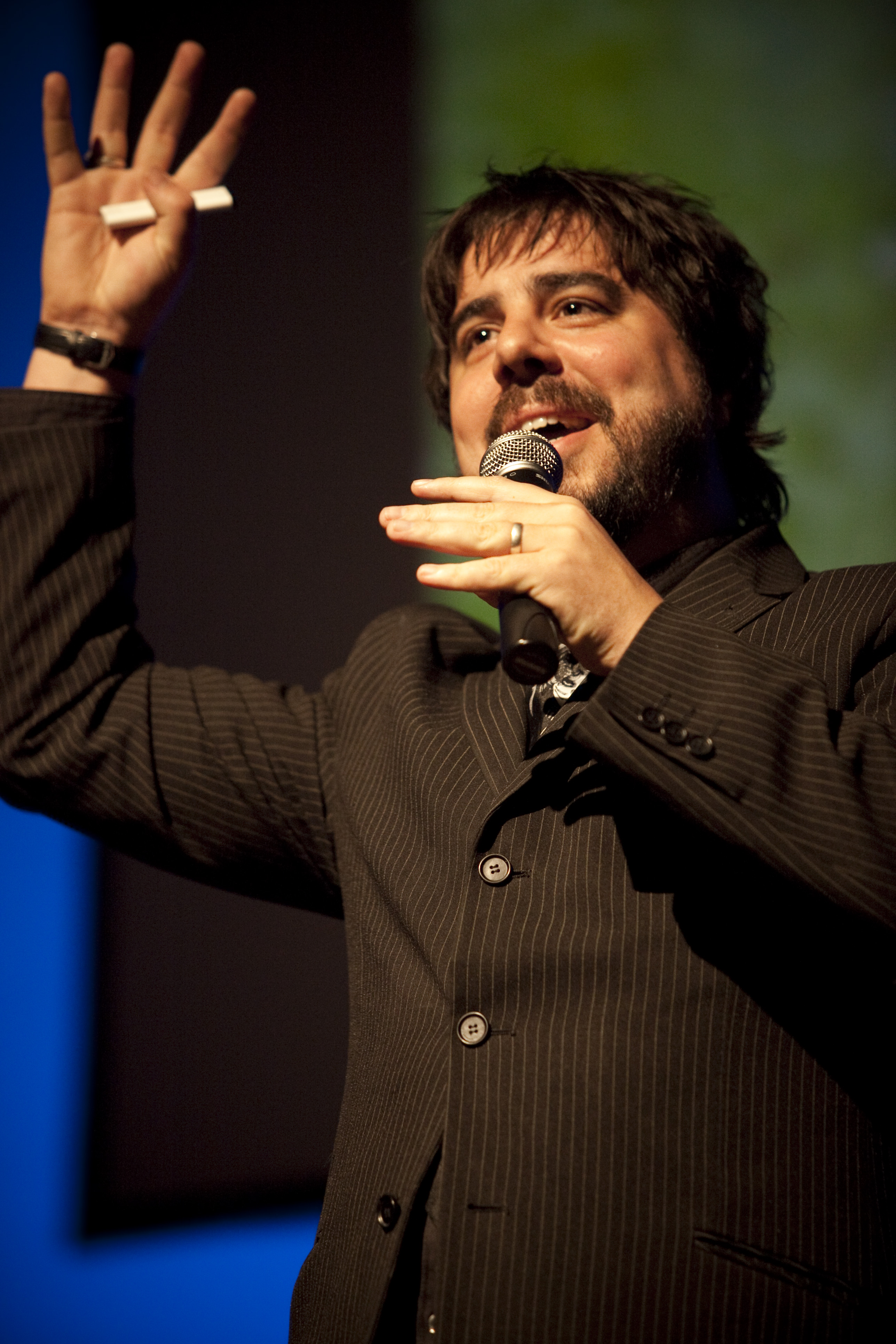 Ben has the crowd in stitches as a hilarious addition to this years TechFest lineup. (Photo by Ollie Dale)